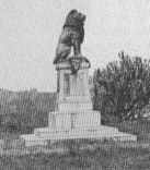 The monument at the grave of Freiherr von Gravenreuth, German officer, in Douala. From .